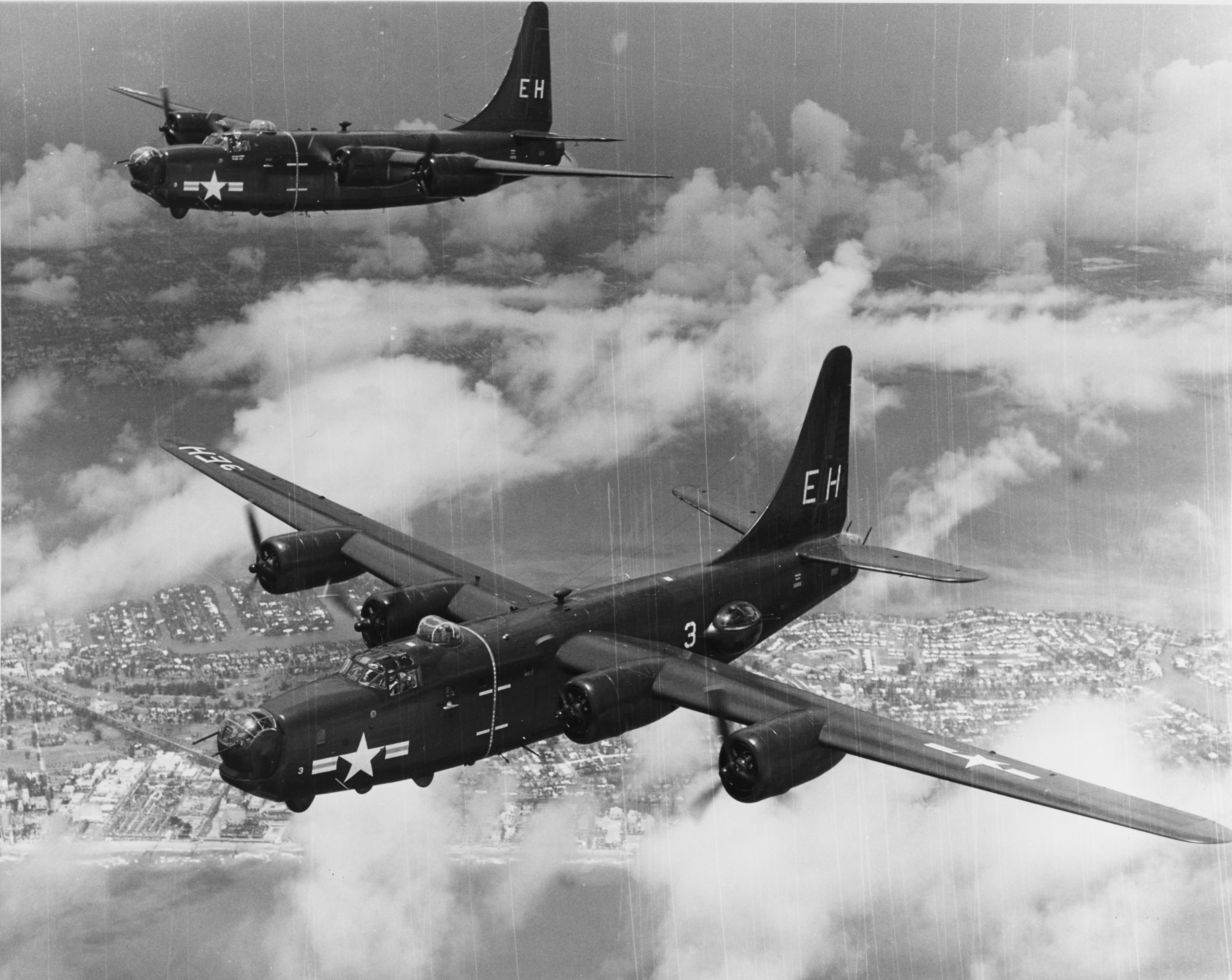 Two U.S. Navy Consolidated PB4Y-2 Privateer from Patrol Squadron 23 (VP-23) in formation over Miami, Florida (USA), in July 1949. The PB4Y-2 in foreground is BuNo 60006.